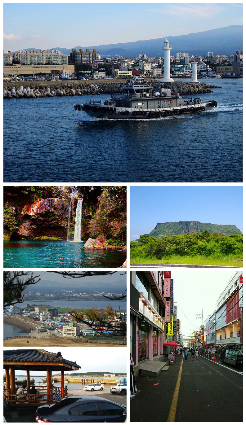 Montage of various Jeju (제주도) images